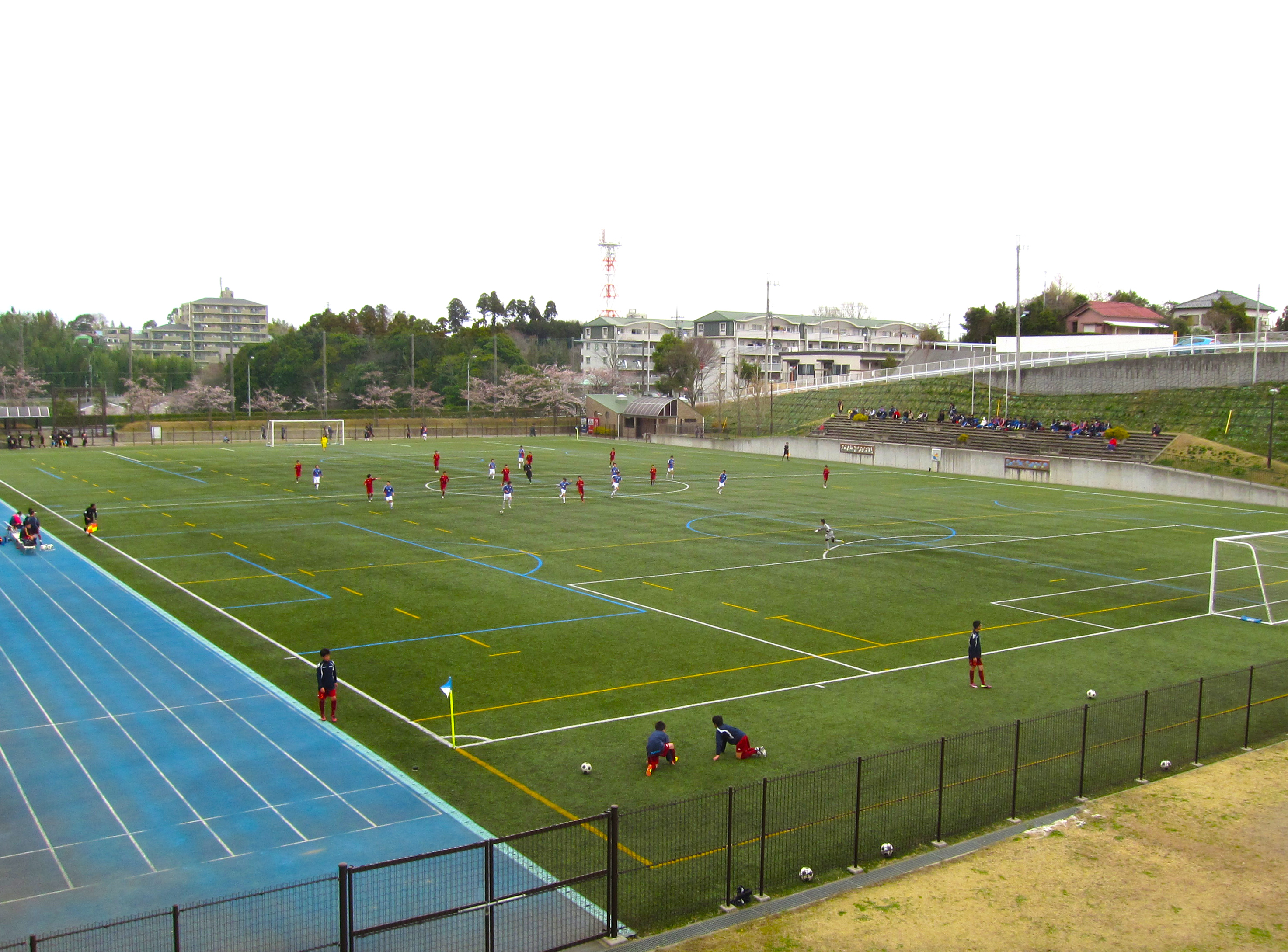 Narita Nakadai Sports Park